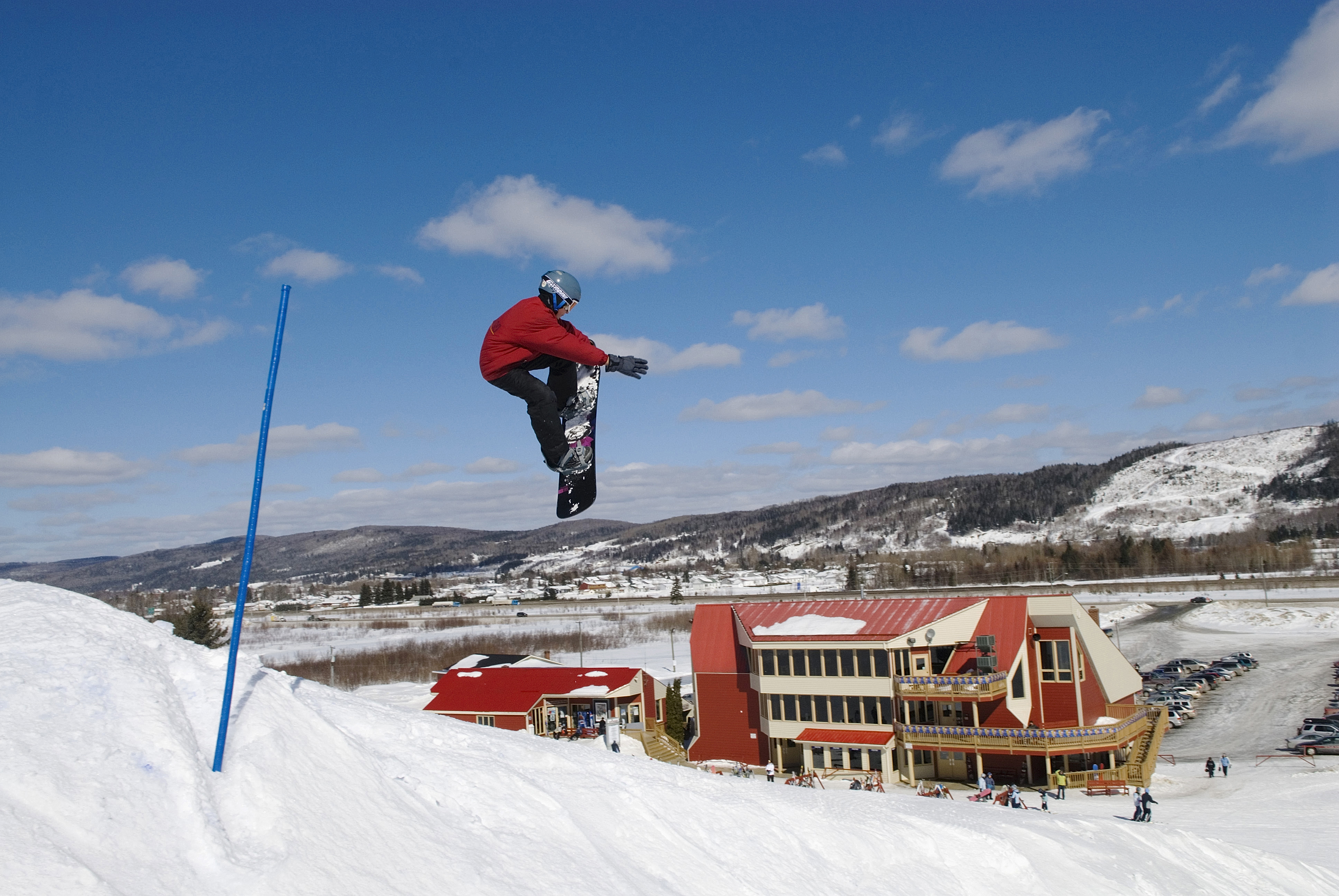 Snowboard at Mount Farlagne.